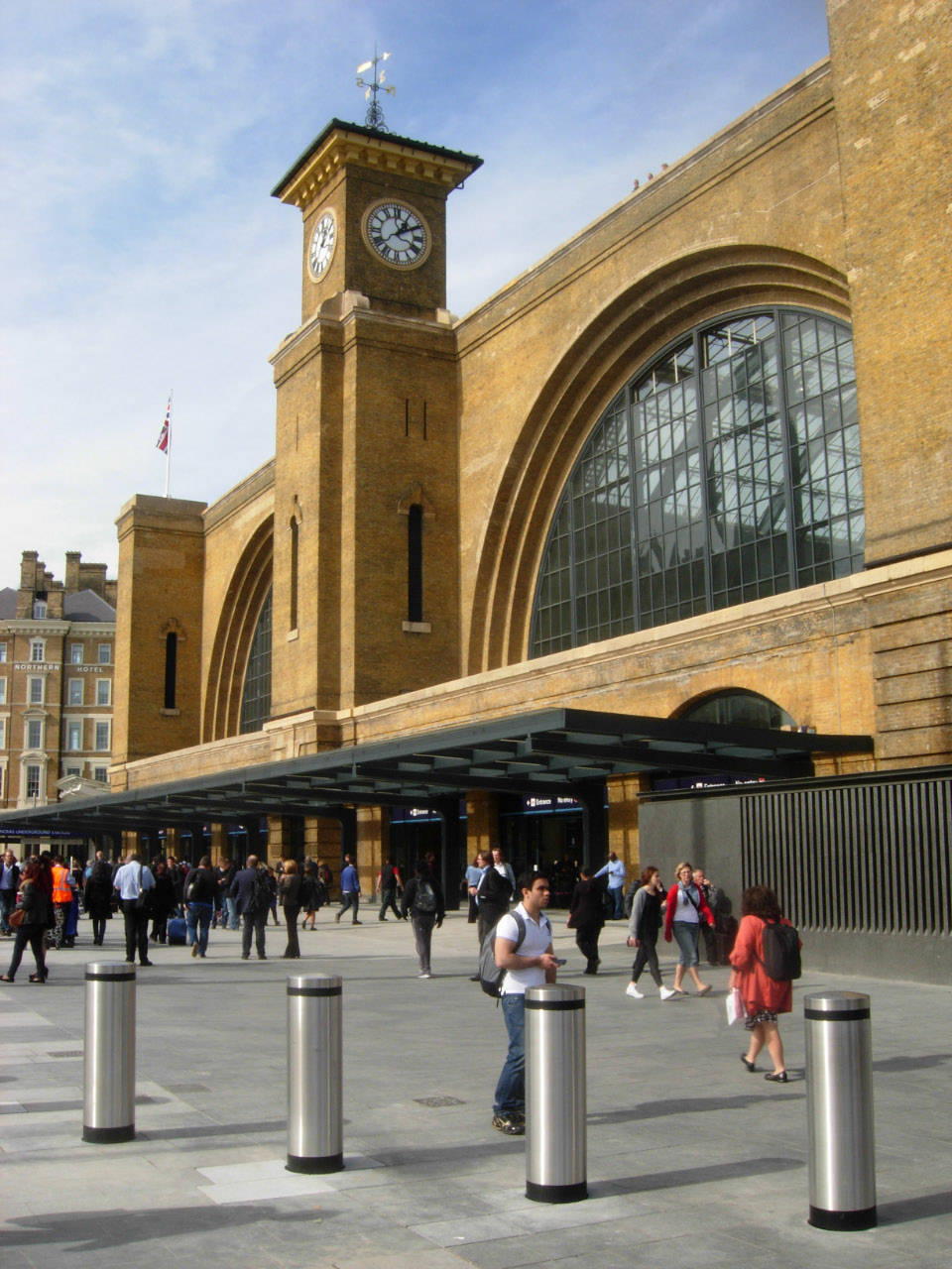 King's Cross station exterior, with the newly opened public square in front.